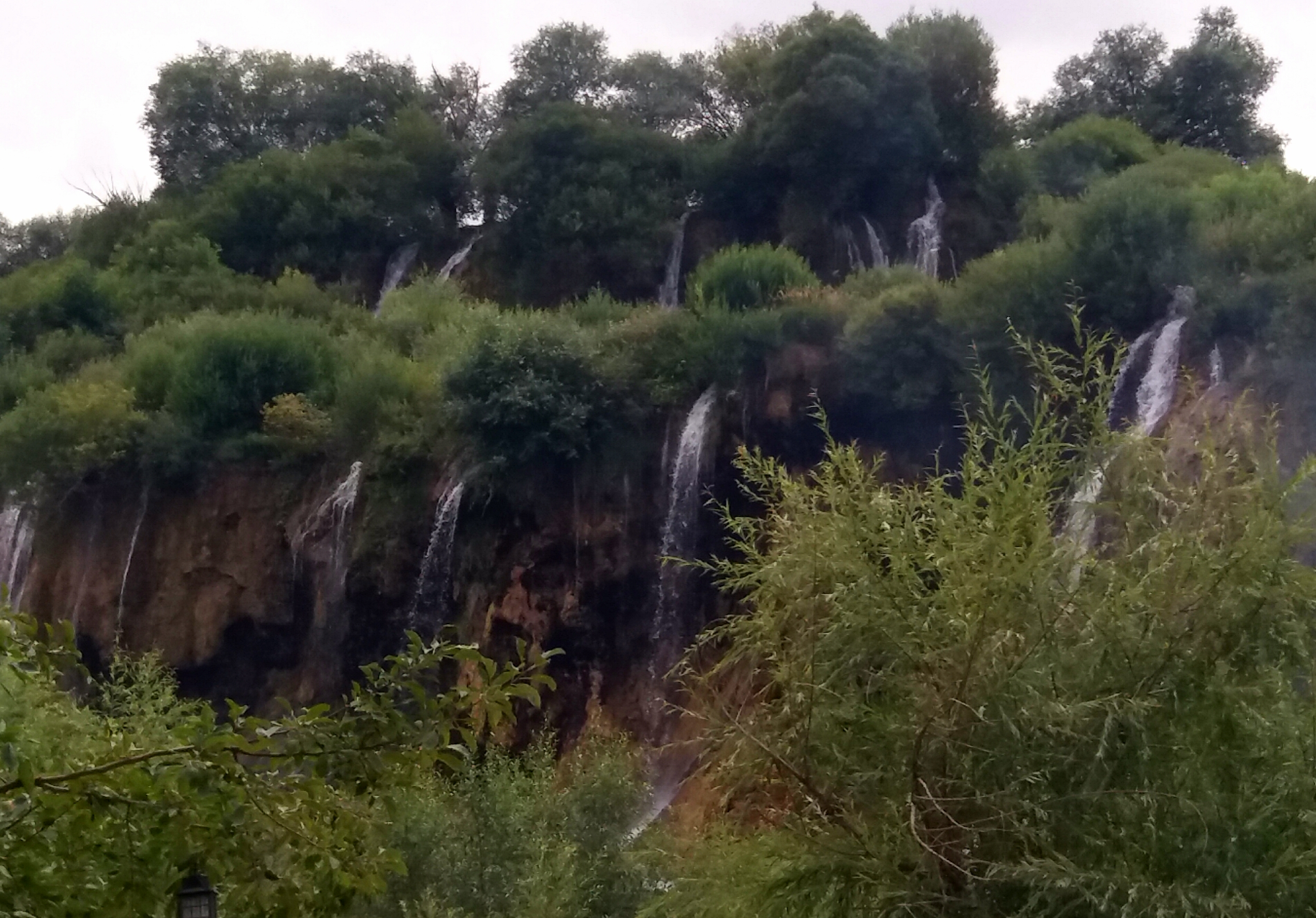 Girlevik Waterfall, Erzincan